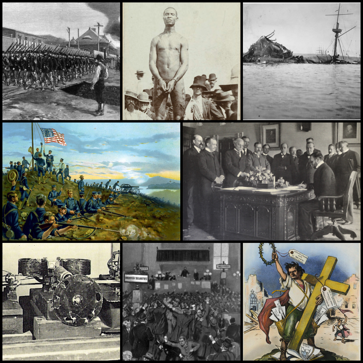 A montage of noticeable events in the 1890s.